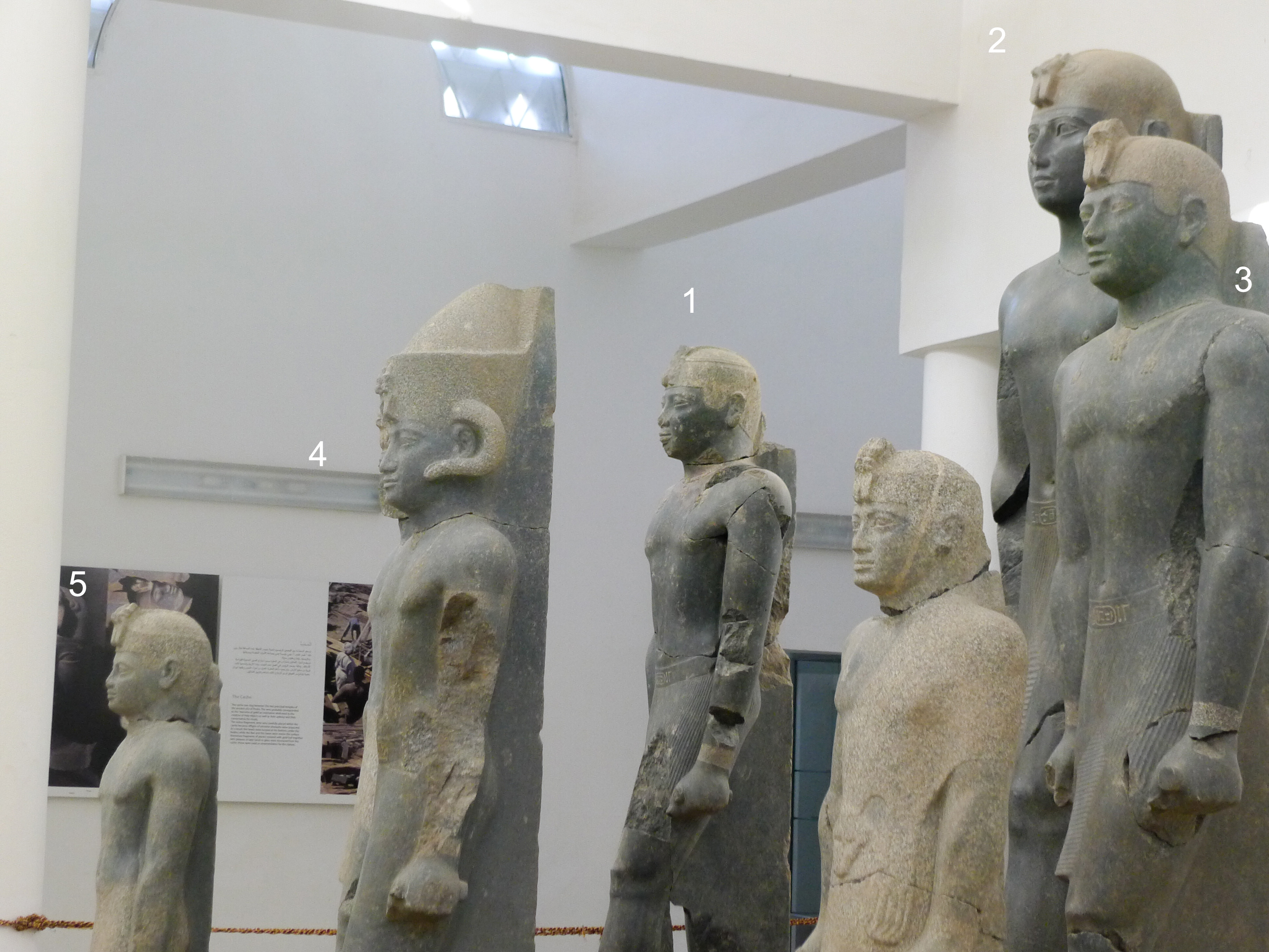 Statues found at Kerma. Identification of pharaohs : 1 and 3. Tanoutamon (664-656), 25th dynasty, H. 196 and 213 cm; 2. Taharqo (or Taharqa, 690-664), 25th dynasty, H 255 cm; 4. Anlamani, king of Napata, H 176 cm; 5. Senkamanisken, king of Napata, H 146 cm. Statues from the cache of Doukki Gel. These statues were discovered, broken, in a cache located between the main temples of the Napatan era. Kerma Museum. Ref. : François-Xavier Fauvelle (dir.), L'Afrique ancienne : de l'Accacus au Zimbabwe. 20 000 avant notre ère - XVIIe siècle, ISBN 978-2-7011-9836-1, p. 76.